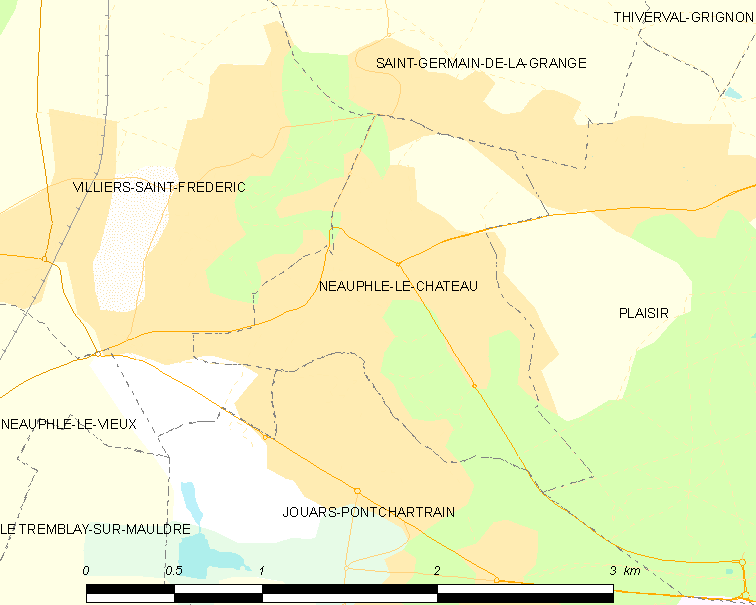 Map of French municipality Neauphle-le-Château